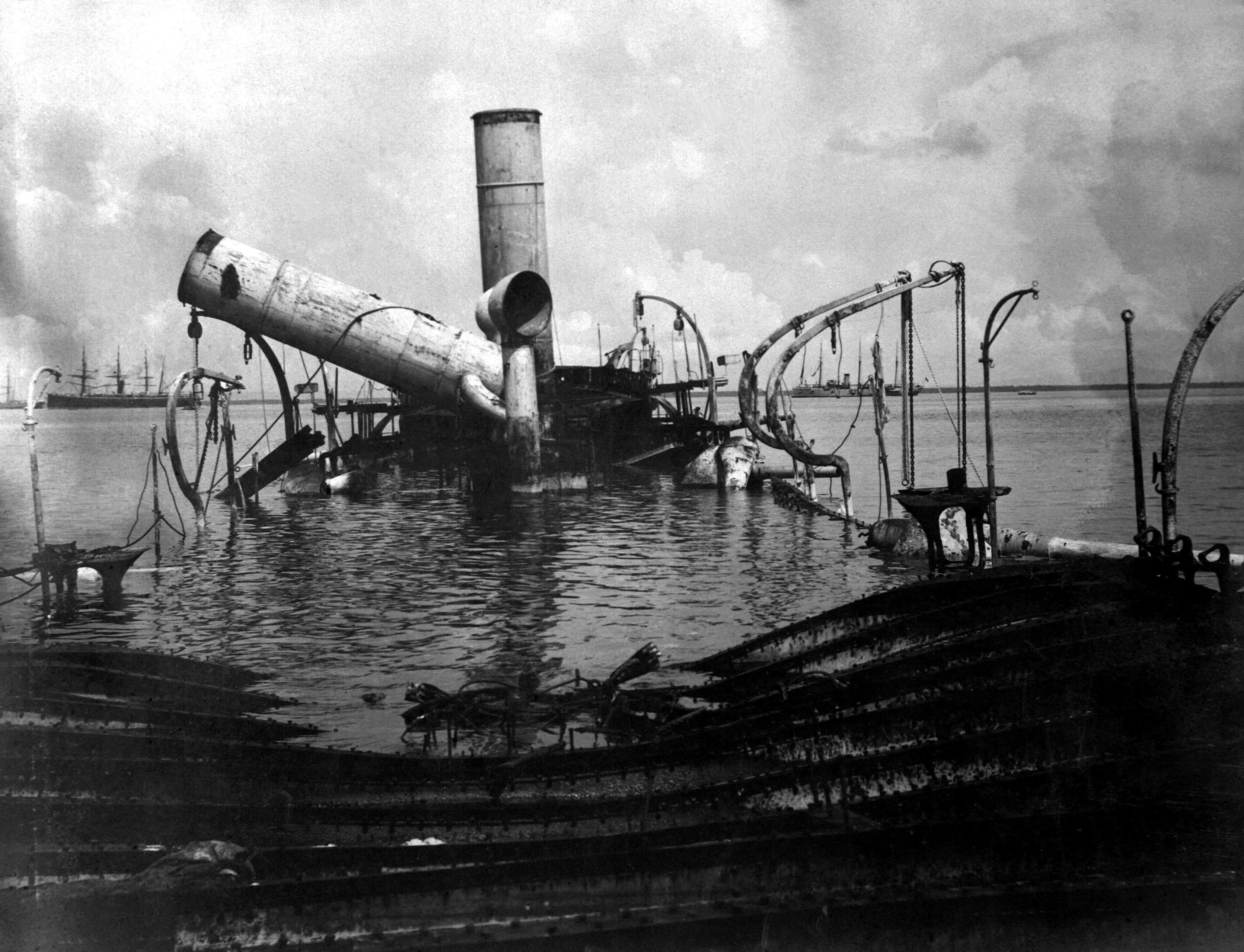 Spanish warship Reina Christina, Admiral Montojo's flagship - completely destroyed by Dewey, Cavite. HD-SN-99-01938.